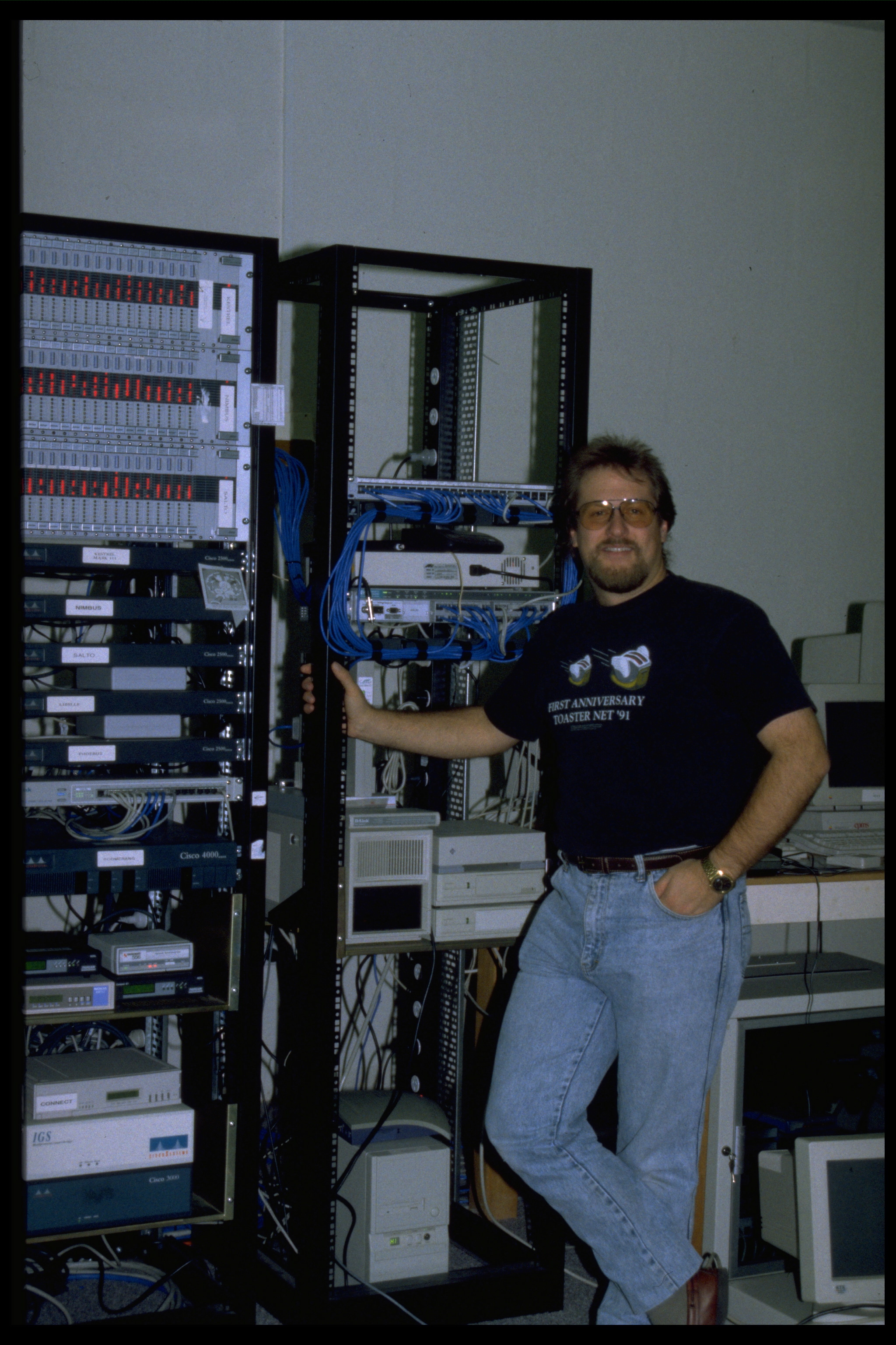 Hackett helped create the Internet Toaster, perhaps the world's first real Internet Cafe, and was Chief Engineer on the first Karaoke Multicast live from the Kennedy Center.